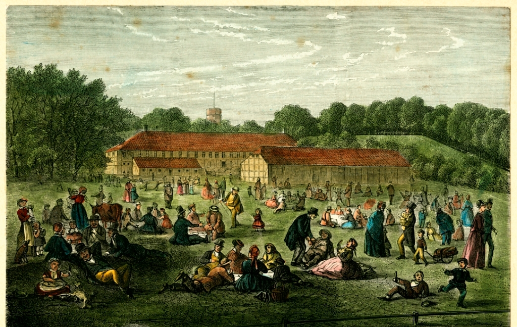 Smørrebrødsplænen in Frederiksberg Gardens, Frederiksberg, Copenhagen, Denmark. Danish: "Smørrebrødsplænen i slotshaven. I baggrunden slottets kavalerbygning (Staldgården). Idag har K.B. tennisbaner på dette sted. "